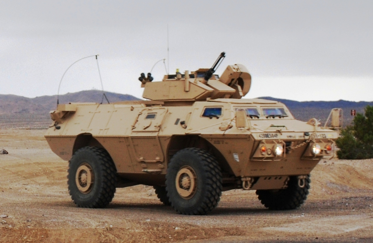 M1117 Armored Security Vehicle at Fort Irwin National Training Center in California